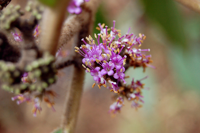 Flowers of the Urn-Fruit Beauty Berry (Callicarpa macrophylla). The berries of the plant are considered edible.